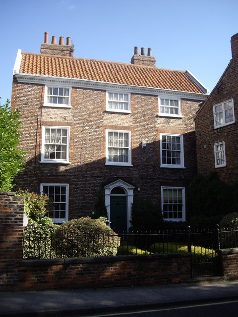 Number 14 St Saviour's Place York